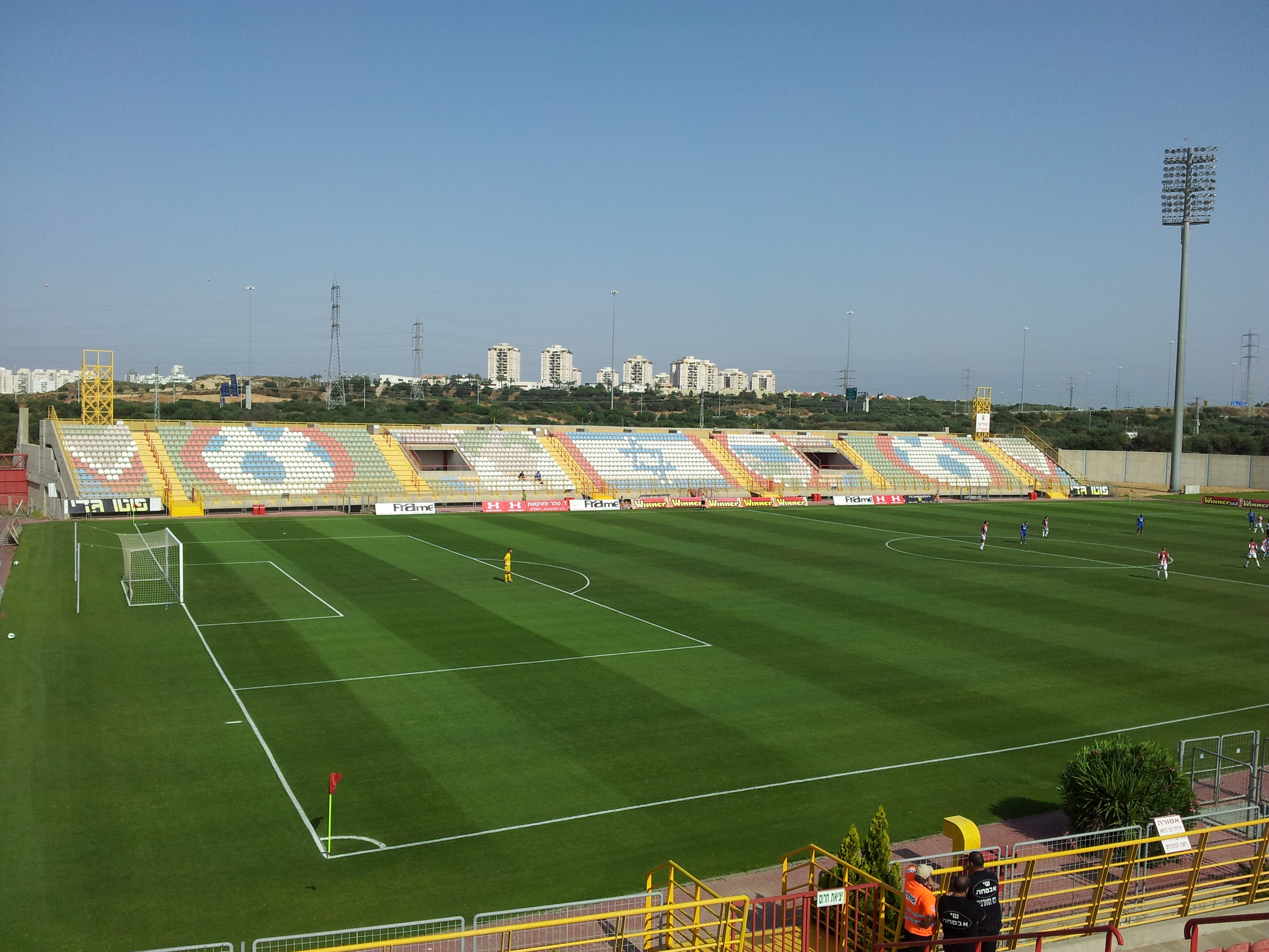 Haberfeld Stadium, Rishon LeZion